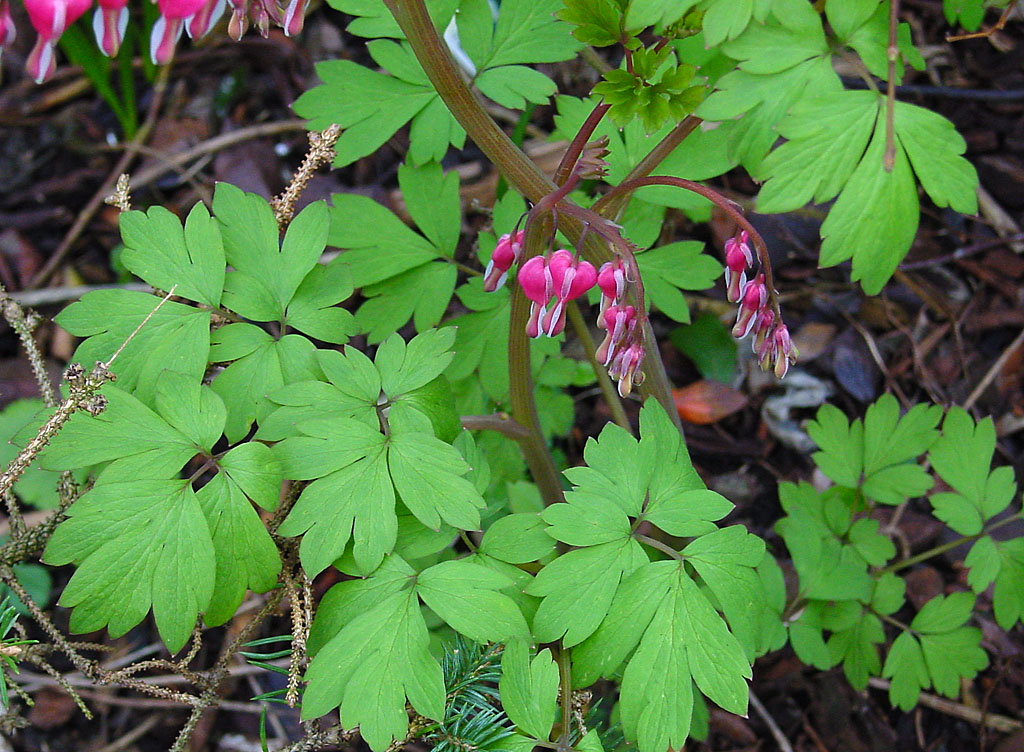 Venus's car, bleeding heart, or lyre flower